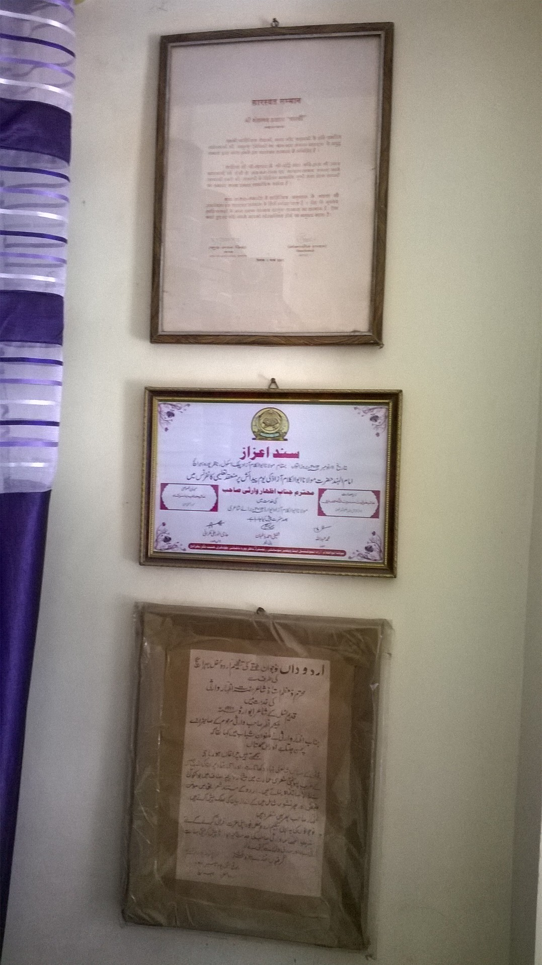 Izhar Warisi awards certificates